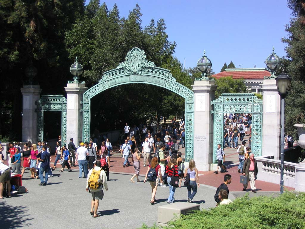 Photograph of Sather Gate at the University of California.